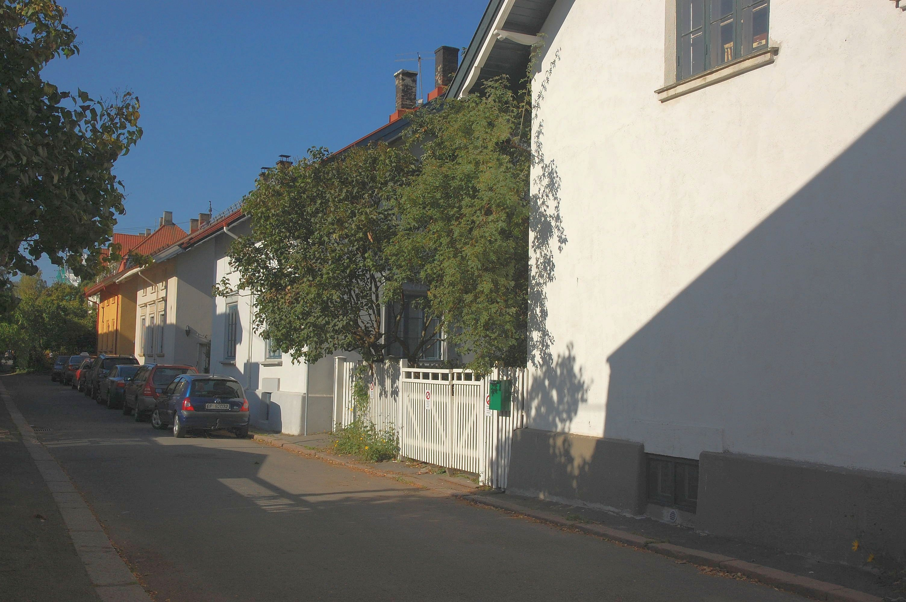 Anton Schjøths gate, Frølichbyen at St.Hanshaugen in Oslo